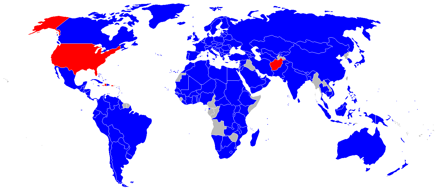 Blank world map, coloured as per the signatories and ratification of the Basel Convention Blue = Signed and ratified Red = Signed, but not ratified Grey = Not a signatory